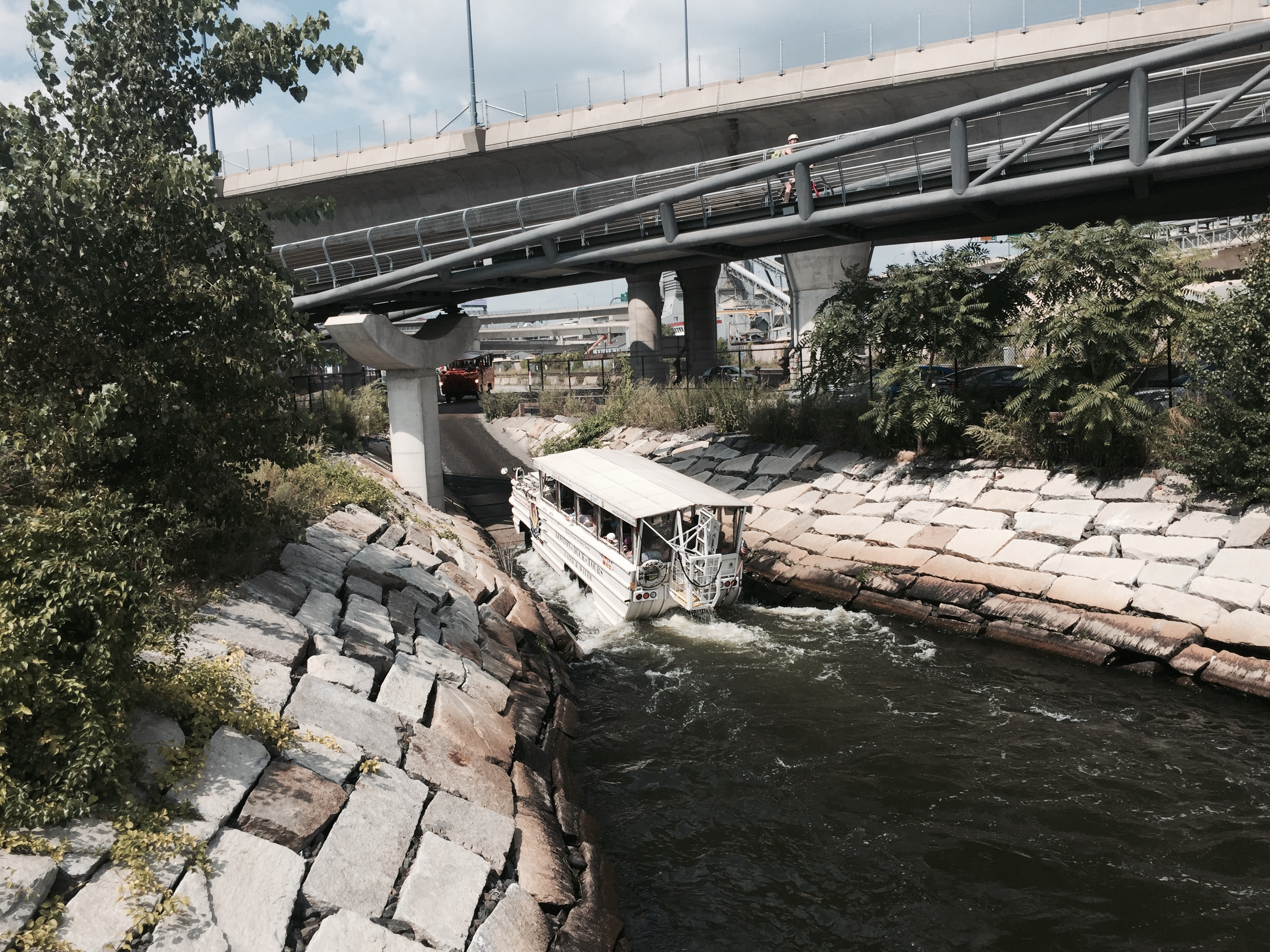 A Boston Duck Tours boat transitioning to land at the boat ramp in North Point Part in Cambridge, Massachusetts, USA. Another duck boat is waiting at the top of the ramp to enter the Charles River basin.